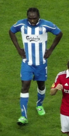 Nigerian football player Peter Utaka.